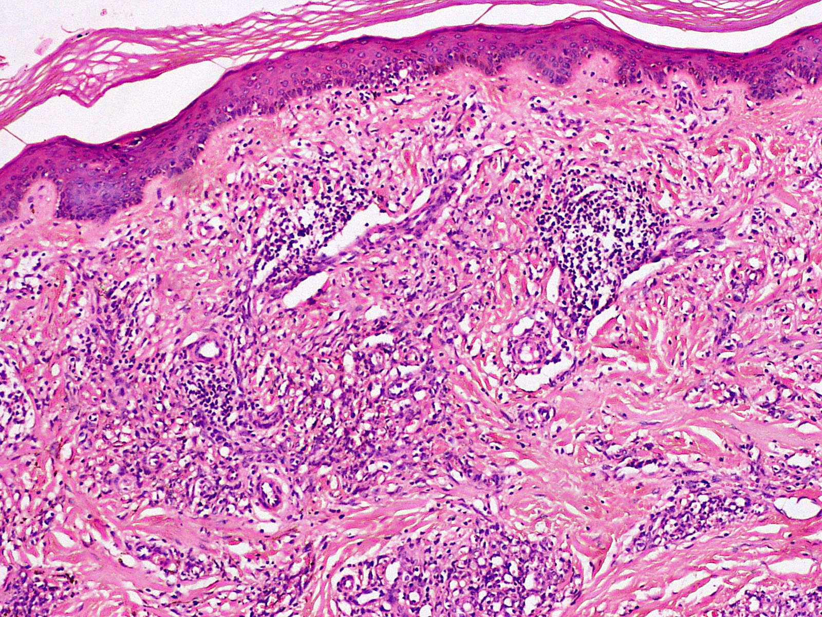 Kaposi sarcoma, plaque stage